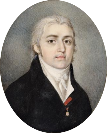 Portrait of Miguel José de Arriaga Brum da Silveira (1776-1824)